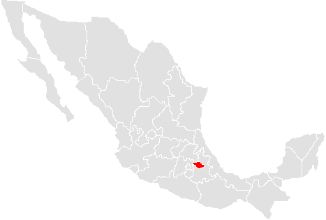 A map of the Mexican state of tlaxcala made by me